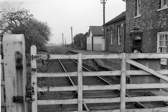 Barton-le-Street Station. View eastwards, towards Malton. The station was closed 30 years earlier on 1/1/31, and in 1961 had probably been converted to a private house, but the line was not closed until 10/8/64